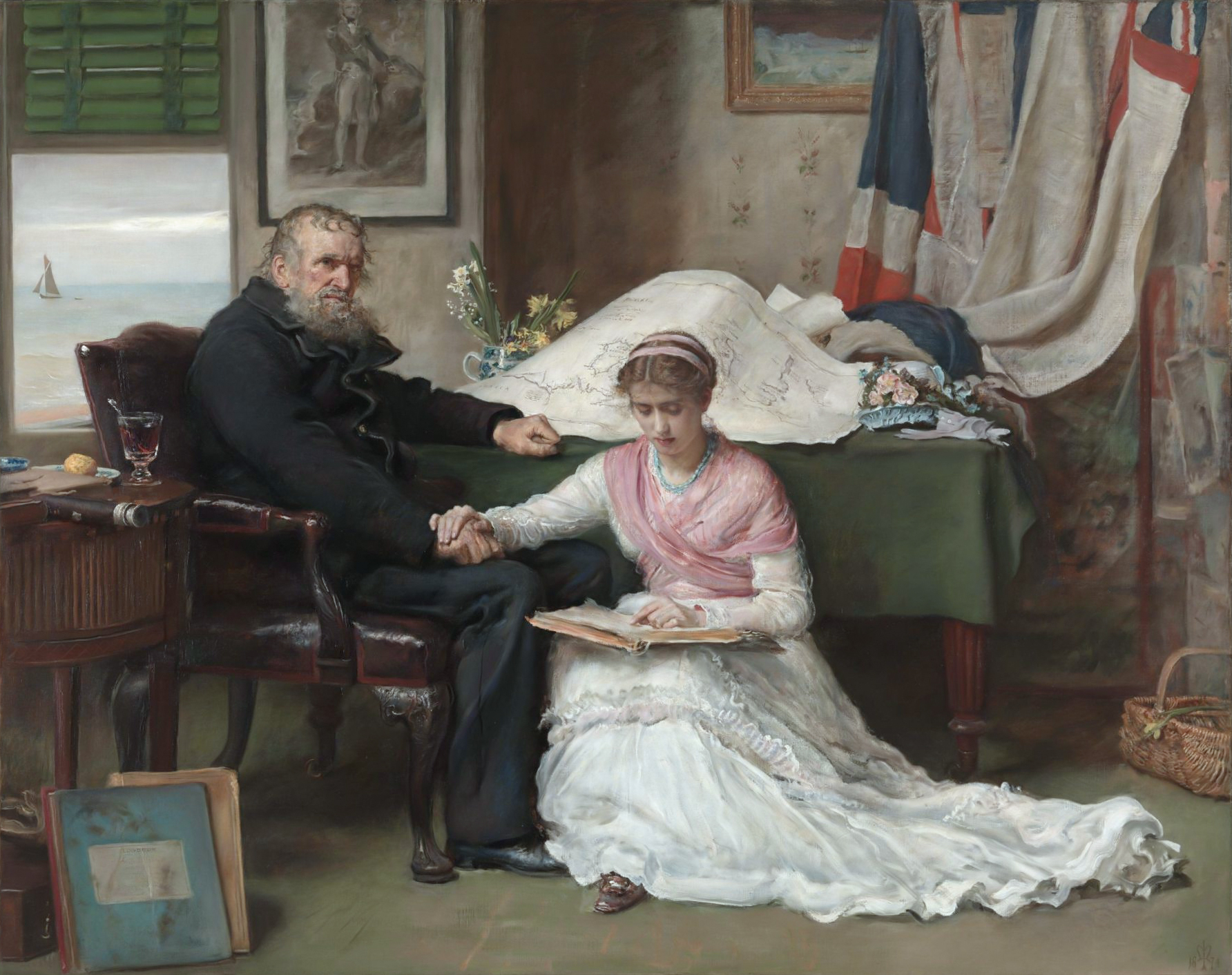 The North-West Passage oil on canvas 176.5 x 222.2 cm signed b.r. 1874